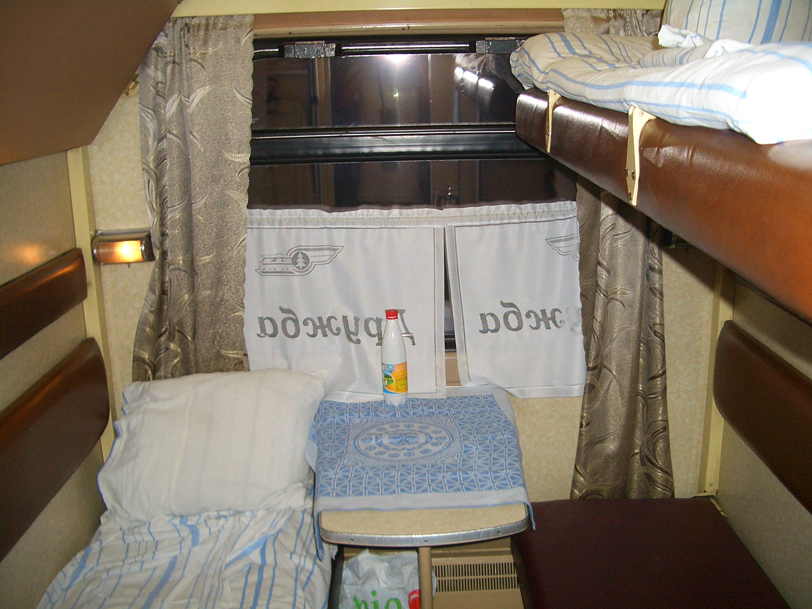 Aboard the "Druzhba" train - a Russian train running between Omsk and Karaganda, Kazakhstan, via Petropavlovsk and Astana.